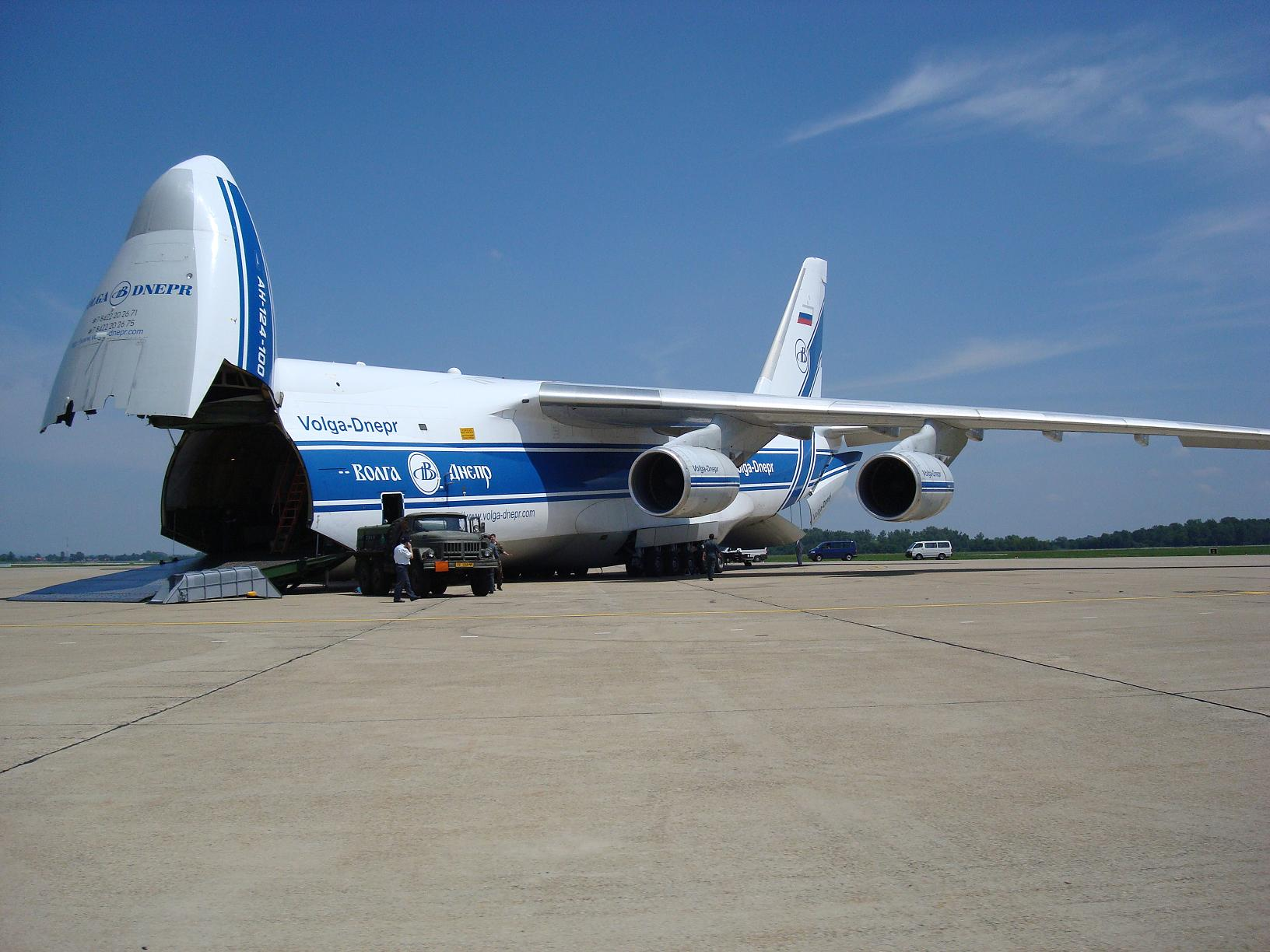 Antonov AN-124 ready for load/unload